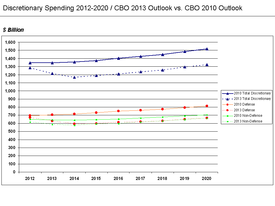 This chart compares discretionary spending (total, defense, and non-defense) under the CBO 2010 Budget Outlook and CBO 2013 Budget Outlooks. Interpreting the chart CBO publishes its Budget and Economic Outlook during the first quarter of each year and updates it mid-year. This chart compares discretionary spending (total, defense, and non-defense) in the February 2013[1] and January 2010[2] CBO Budget and Economic Outlook publications. The 2010 Outlook was before the Budget Control Act of 2011 (BCA). The BCA contained the sequester. The key to the right of the diagram indicates the type of spending and the year indicates which Outlook is the source of the information. Some comparative statistics between the baselines in the two Outlooks: Total discretionary spending over the 2012-2020 period was $12.7 trillion in the 2010 Outlook and $11.2 trillion in the 2013 Outlook, a difference of $1.5 trillion. Total defense spending over the 2012-2020 period was $6.7 trillion in the 2010 Outlook and $5.7 trillion in the 2013 Outlook, a reduction of $1.0 trillion. This defense spending includes the "overseas contingency operations" amounts for Iraq and Afghanistan. Total non-defense discretionary spending over the 2012-2020 was $6.0 trillion in the 2010 outlook and $5.5 trillion in the 2013 Outlook, a reduction of $500 billion. Other observations: The diagram shows how the 2013 Outlook has the Defense and Non-defense categories converging over time. They are virtually indistinguishable on the graph, with a total of only $139 billion difference over the period. Notes: The January 2011 Outlook total discretionary spending was not significantly different from the 2010 Outlook. It was also prior to the August 2011 passage of the BCA. There are some mandatory accounts (e.g., Medicare) affected by the sequester that are outside the scope of this diagram. This just covers discretionary spending, not mandatory spending.